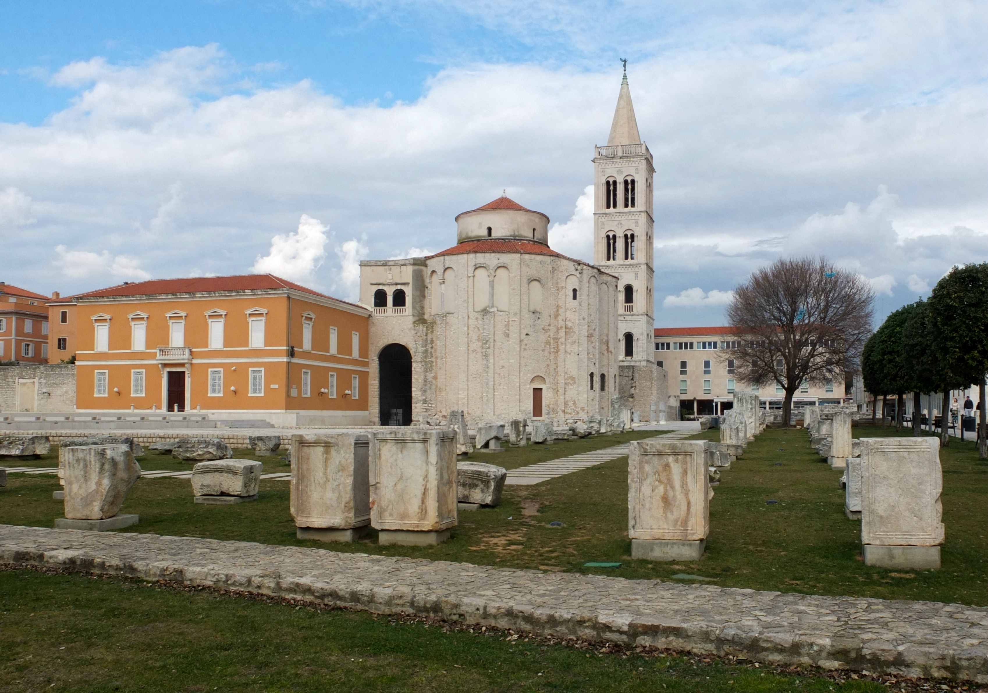 Roman Forum with Church of St. Donatus in Zadar, Croatia (view from SW).